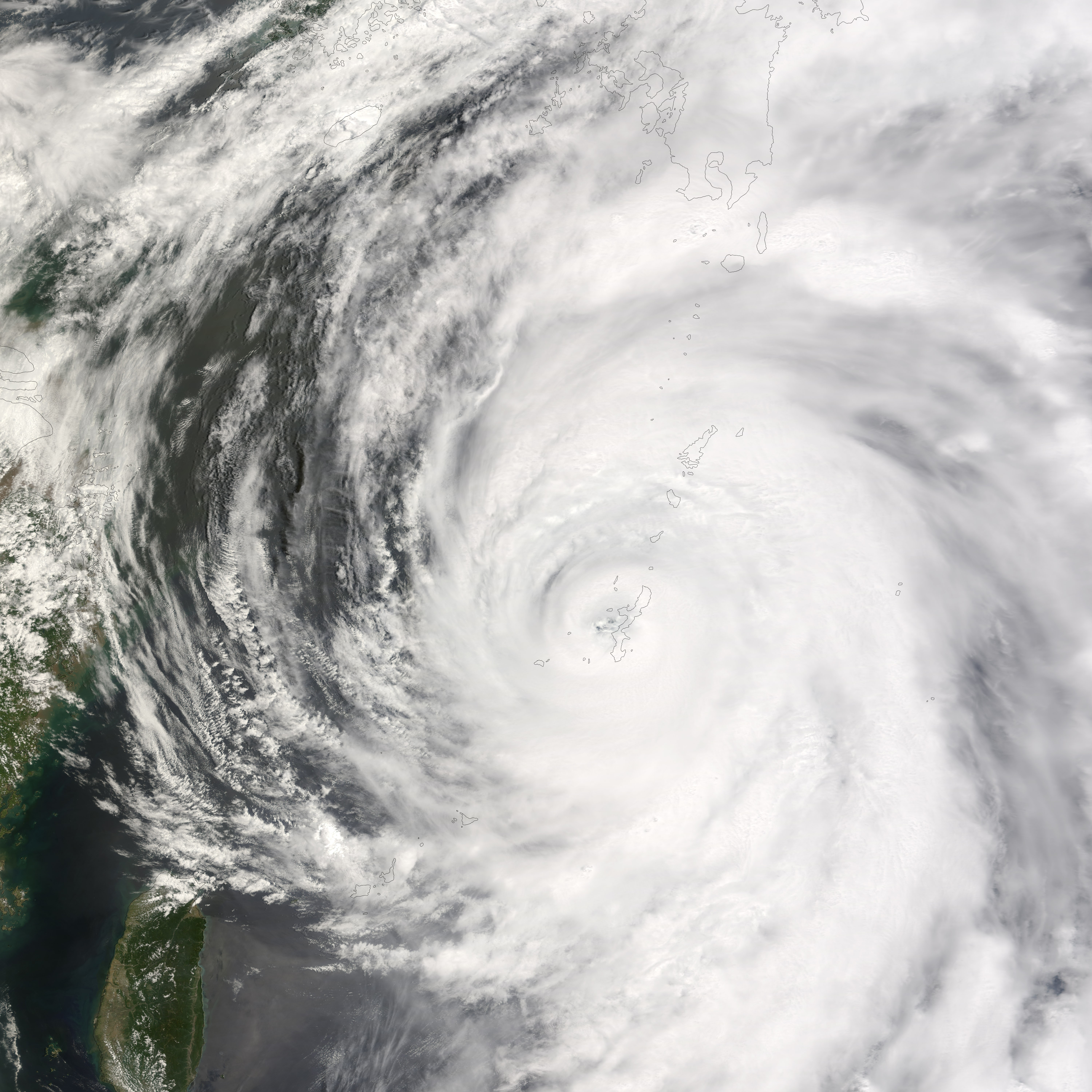 Typhoon Man-Yi was pummeling the Japanese island of Okinawa with winds between 230 and 295 kilometers per hour (125-160 knots, 144-184 miles per hour) and heavy rain on the morning of July 13, 2007, when the Moderate Resolution Imaging Spectroradiometer (MODIS) on NASA’s Terra satellite captured this image. The immense storm covered hundreds of kilometers with spiraling bands of thunderstorms, though it had lost the distinctive cloud-free eye it exhibited the day before. Typhoons are common in Japan, but powerful typhoons usually strike the island nation later in the year. The Japan Meteorological Agency said that Man-Yi is the fourth typhoon of the 2007 season and may be the most powerful ever observed in the northwest Pacific in July, reported Kyodo News. The Joint Typhoon Warning Center expected the typhoon to strike Kyushu, a southern Japanese island, on July 14, and then curve northeast along the eastern shore of Japan. By the time the storm reaches Tokyo on July 15, it should be degraded to a tropical storm. As of July 13, Typhoon Man-Yi had injured eight and flooded twenty houses in Okinawa, and forced airlines to cancel hundreds of flights, said Kyodo News. The storm was expected to bring heavy rain to Japan’s Pacific coast.